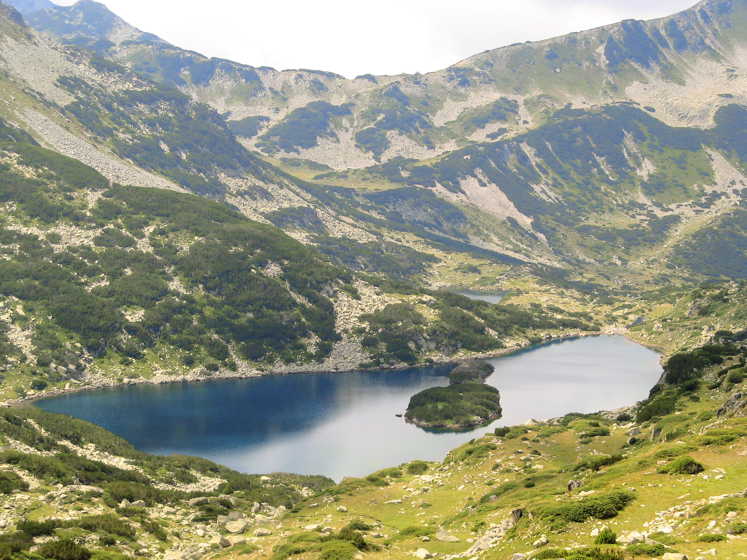 Big Valyavishko Lake in Pirin mountain in Bulgaria